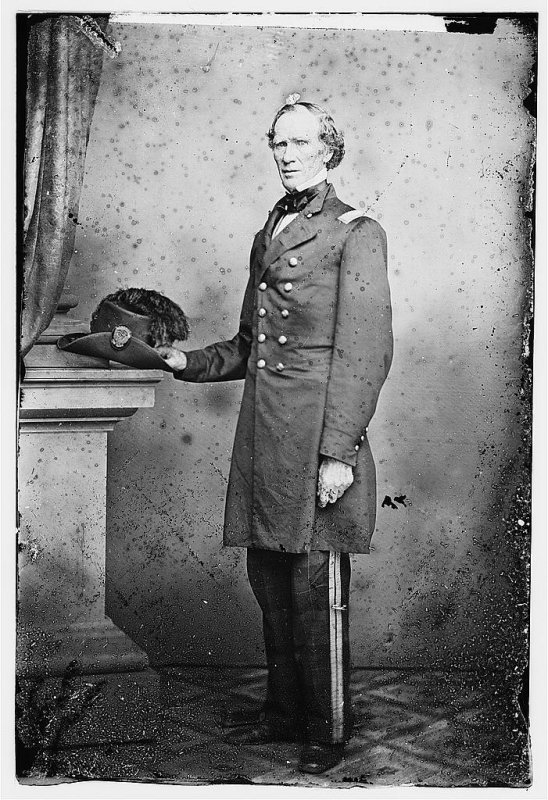 Colonel James Cameron, 79 NY